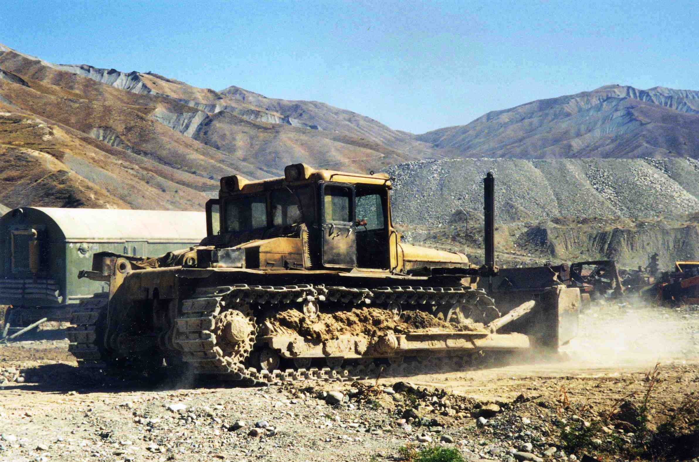 A DET-250 bulldozer in Tajikistan in 1998.